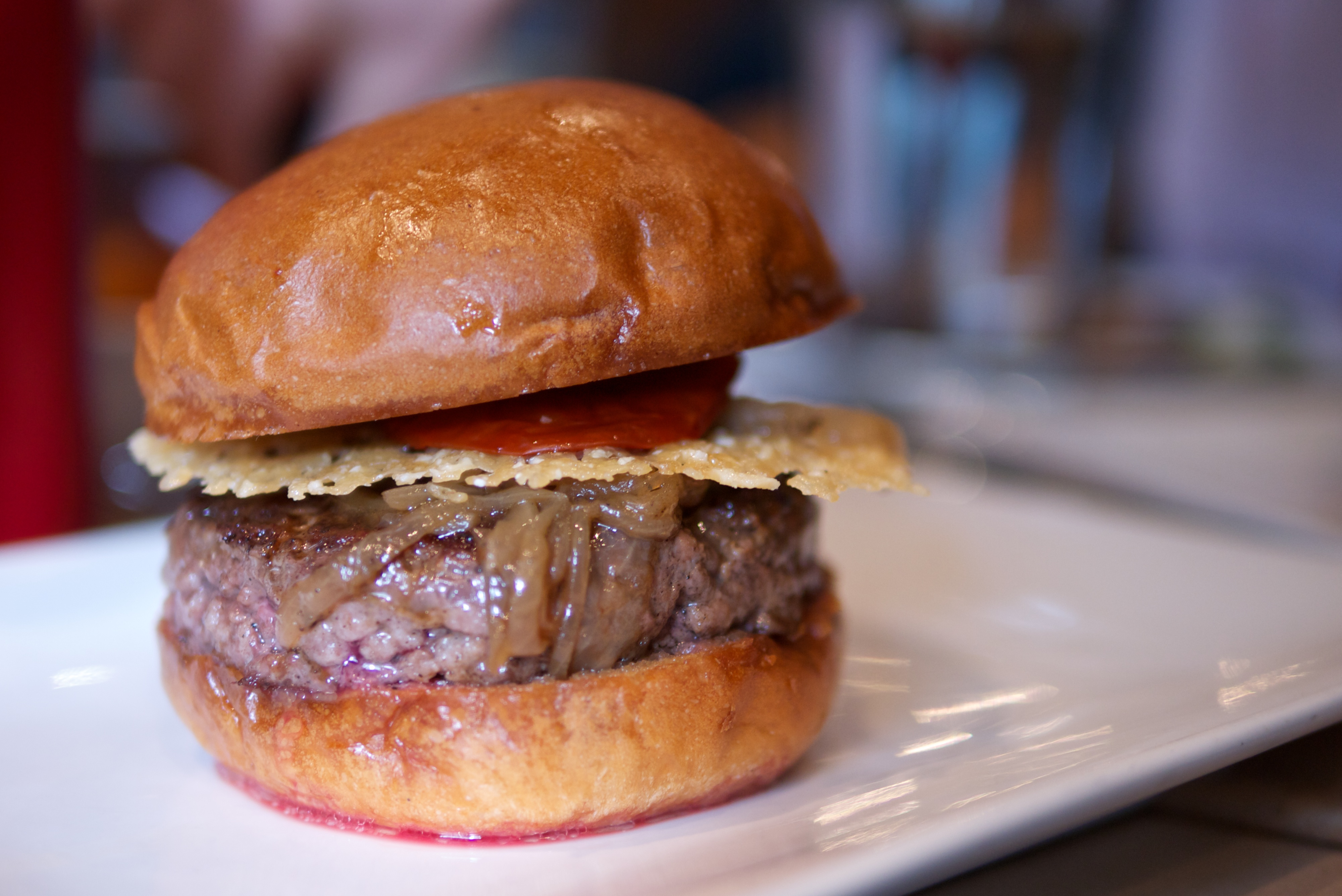 Hamburger from Umami Burger, which includes shiitake mushroom, caramelized onions, roasted tomato, parmesan crisp, and umami ketchup.